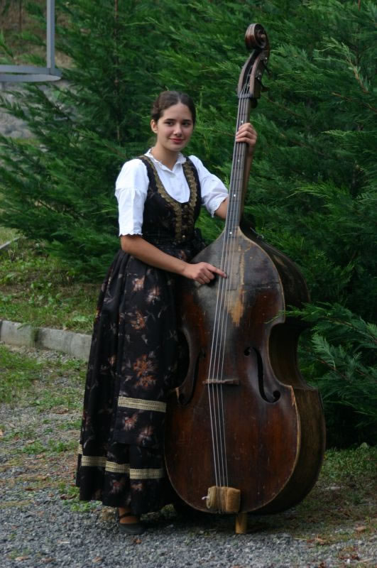 Bunjevac woman in Hungary